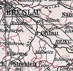 Detail from a map of Silesia.